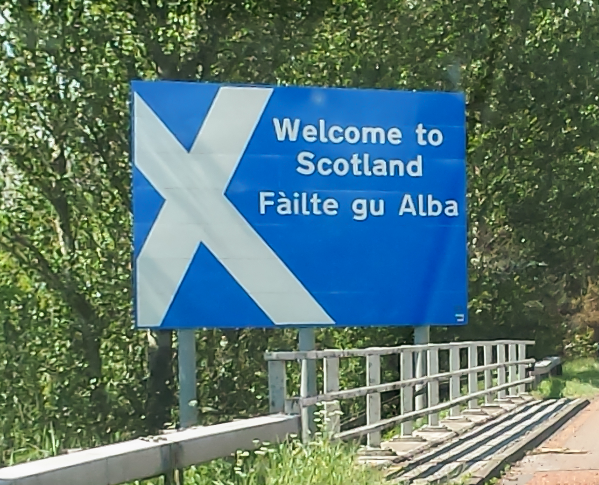 The border sign on the M6 motorway crossing from England into Scotland, where it becomes the A74(M). The sign displays the message in both English and Scottish Gaelic.